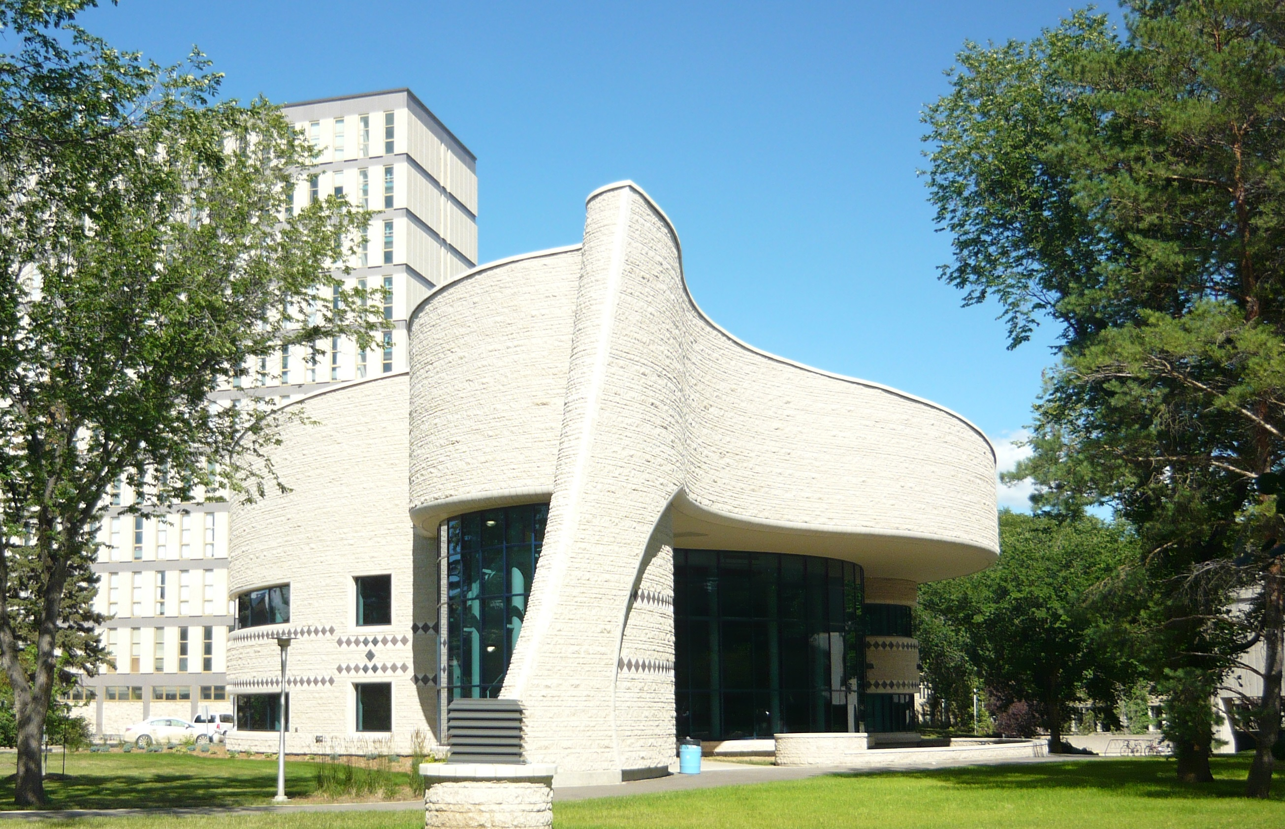 Gordon Oakes Red Bear Student Centre, University of Saskatchewan, 5 Campus Drive, Saskatoon, Saskatchewan, Canada. Opened 2016. Architect: Douglas Cardinal and RBM Architects. Named for Gordon Oakes Red Bear (1932-2002), who had served as Chief of the Nekaneet First Nation.